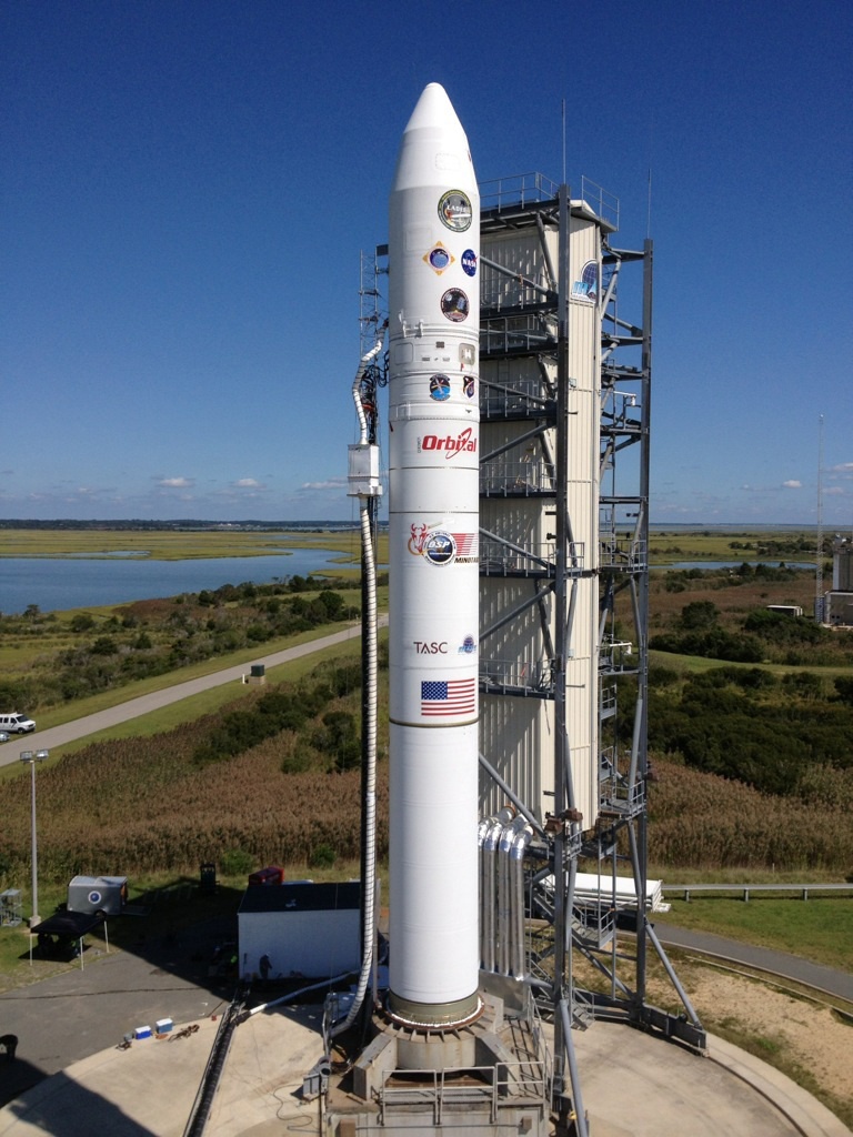 An Orbital Sciences Minotaur V rocket carrying the Moon-bound LADEE spacecraft sits on Mid-Atlantic Regional Spaceport Pad 0B at NASA's Wallops Flight Facility. The vehicle is scheduled to launch on September 6, 2013, at 11:27 p.m. EST.